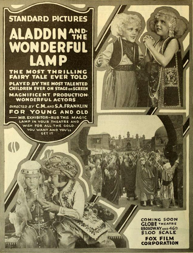 Advertisement in Moving Picture World, Sept 1917